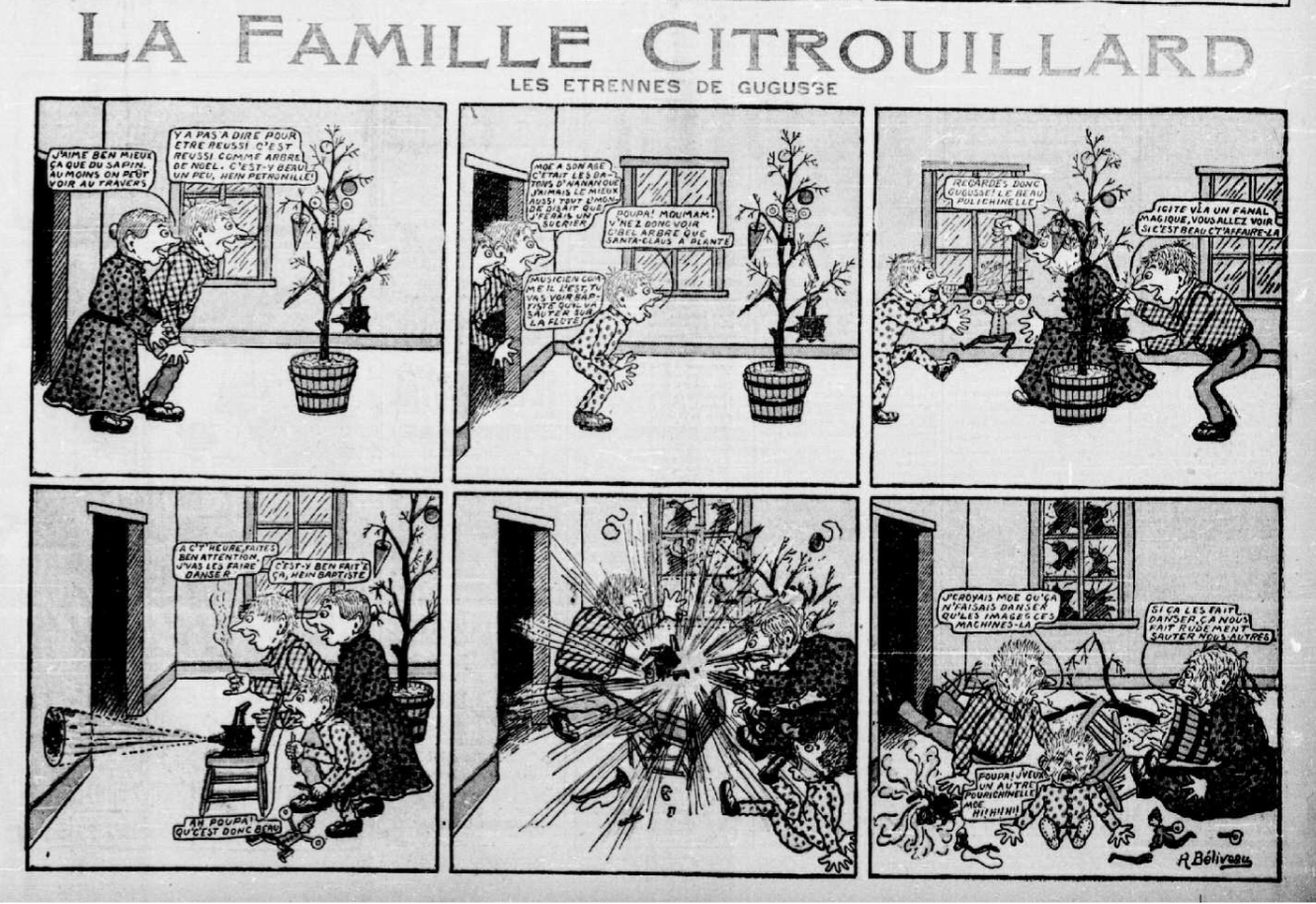 « La Famille Citrouillard », in La Patrie (Montréal), 31 december 1904, page 13.